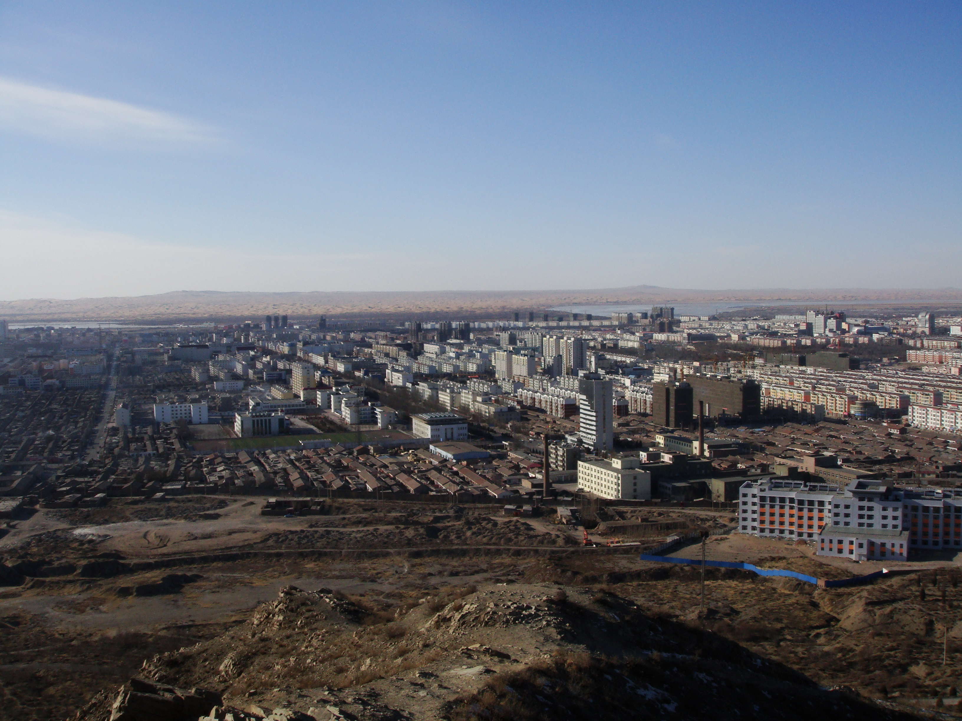 Bird view from the east mountain of Wuhai